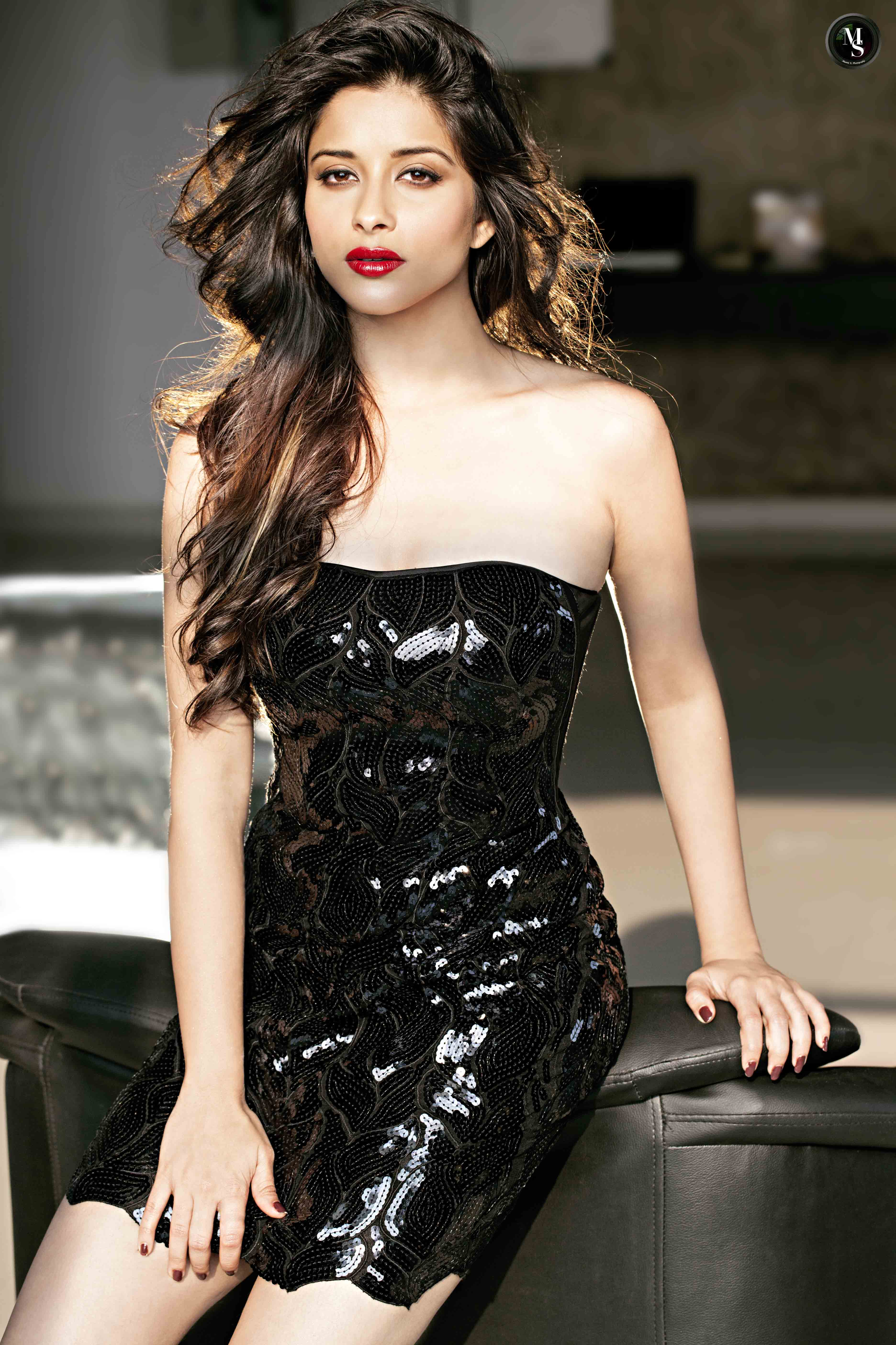 Nyra Banerjee, is an Indian film actress and an assistant director.